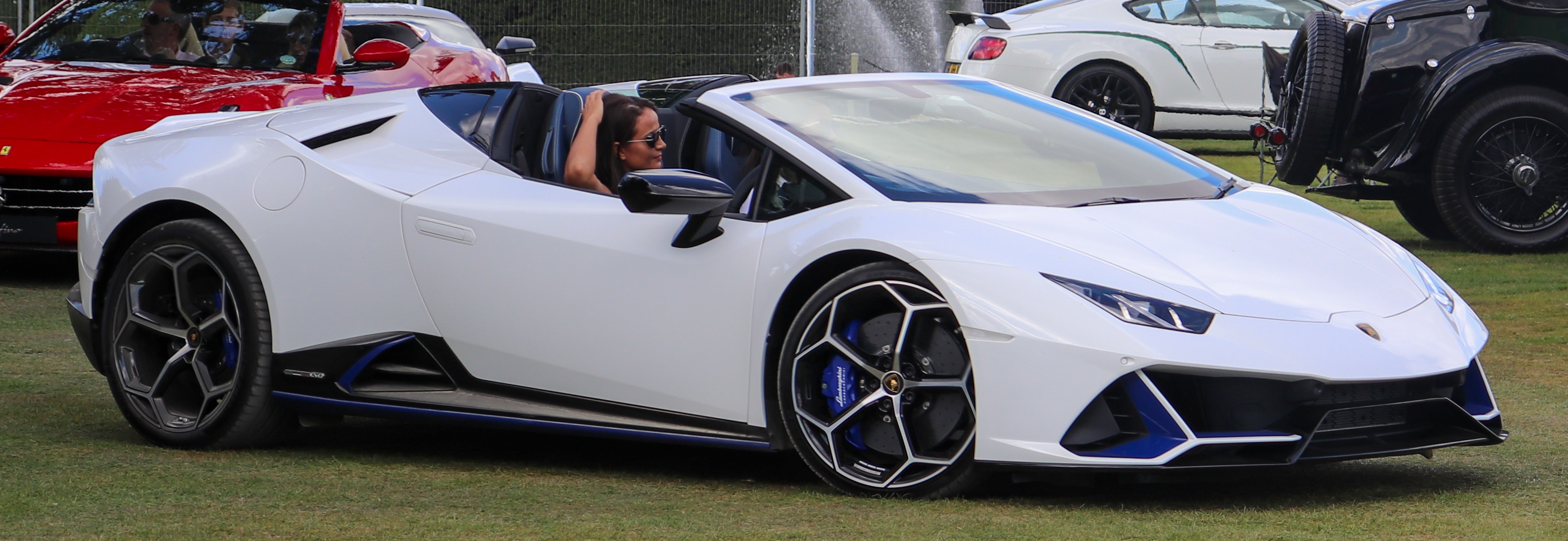 2019 Lamborghini Huracan EVO Spyder Taken at the Salon Privé Concours d'Elegance Classic Car Motor Show 2019, Blenheim Palace